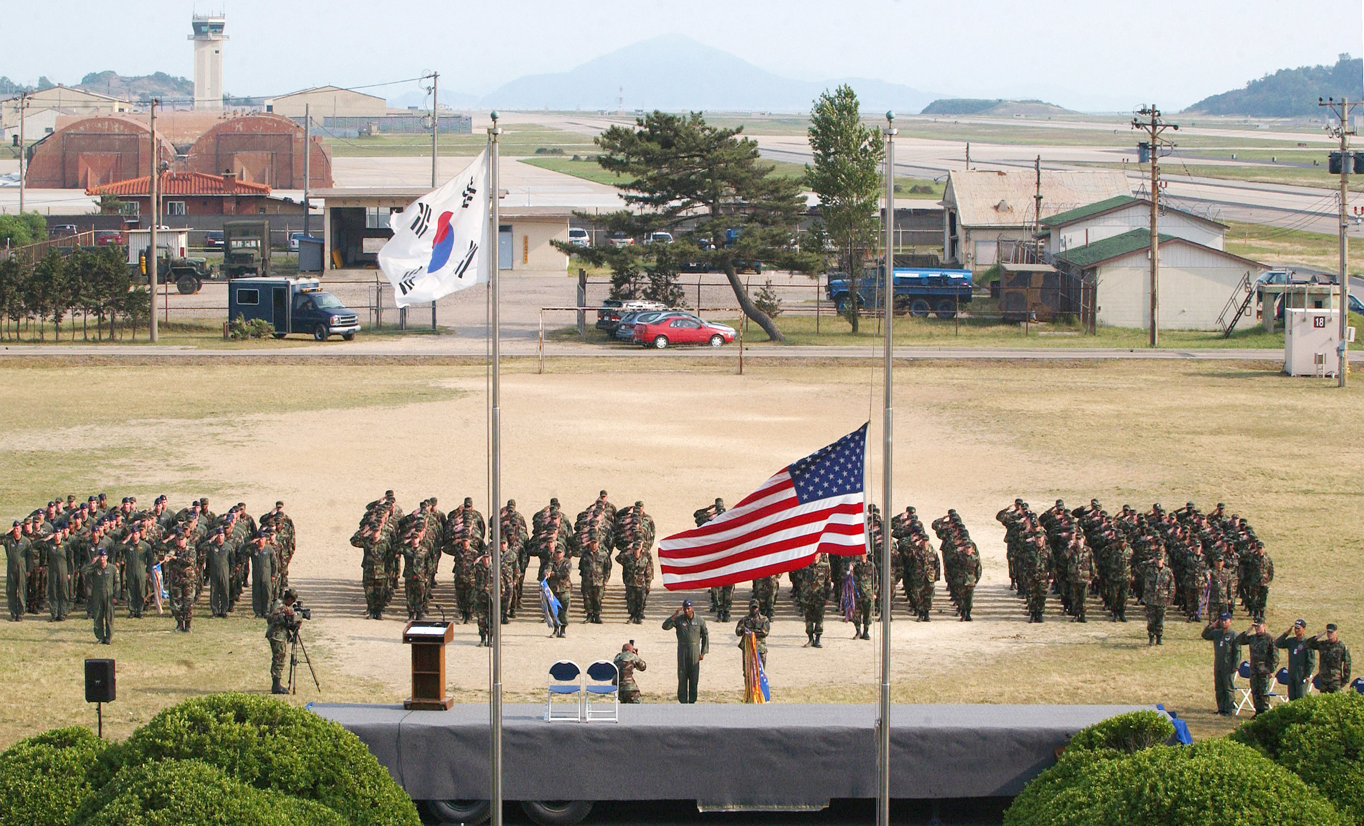 Airmen from the 8th Fighter Wing at Kunsan Air Base, South Korea, salute during a retreat ceremony that was part of the wing's commemoration event June 19 to honor the memory of Brig. Gen.Robin Olds, who passed away recently. General Olds was a triple ace fighter pilot in World War II and Vietnam and a former commander of the then 8th Tactical Fighter Wing at Kunsan. (U.S. Air Force Photo/Senior Airman Steven R. Doty)